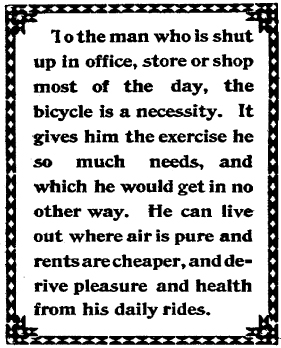 E. C. Stearns & Company - Advertisement - April 1893